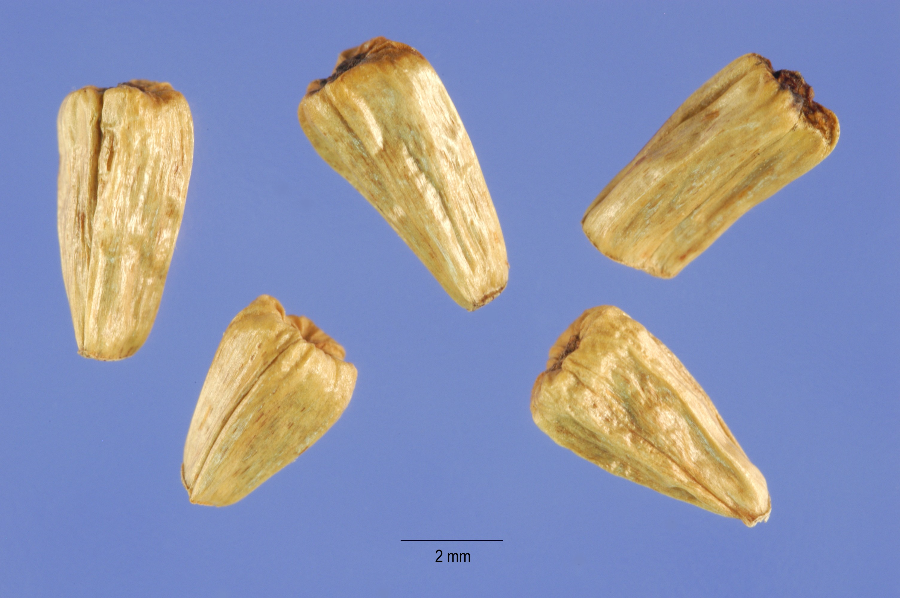 Calamus. Seeds. Maine, USA.